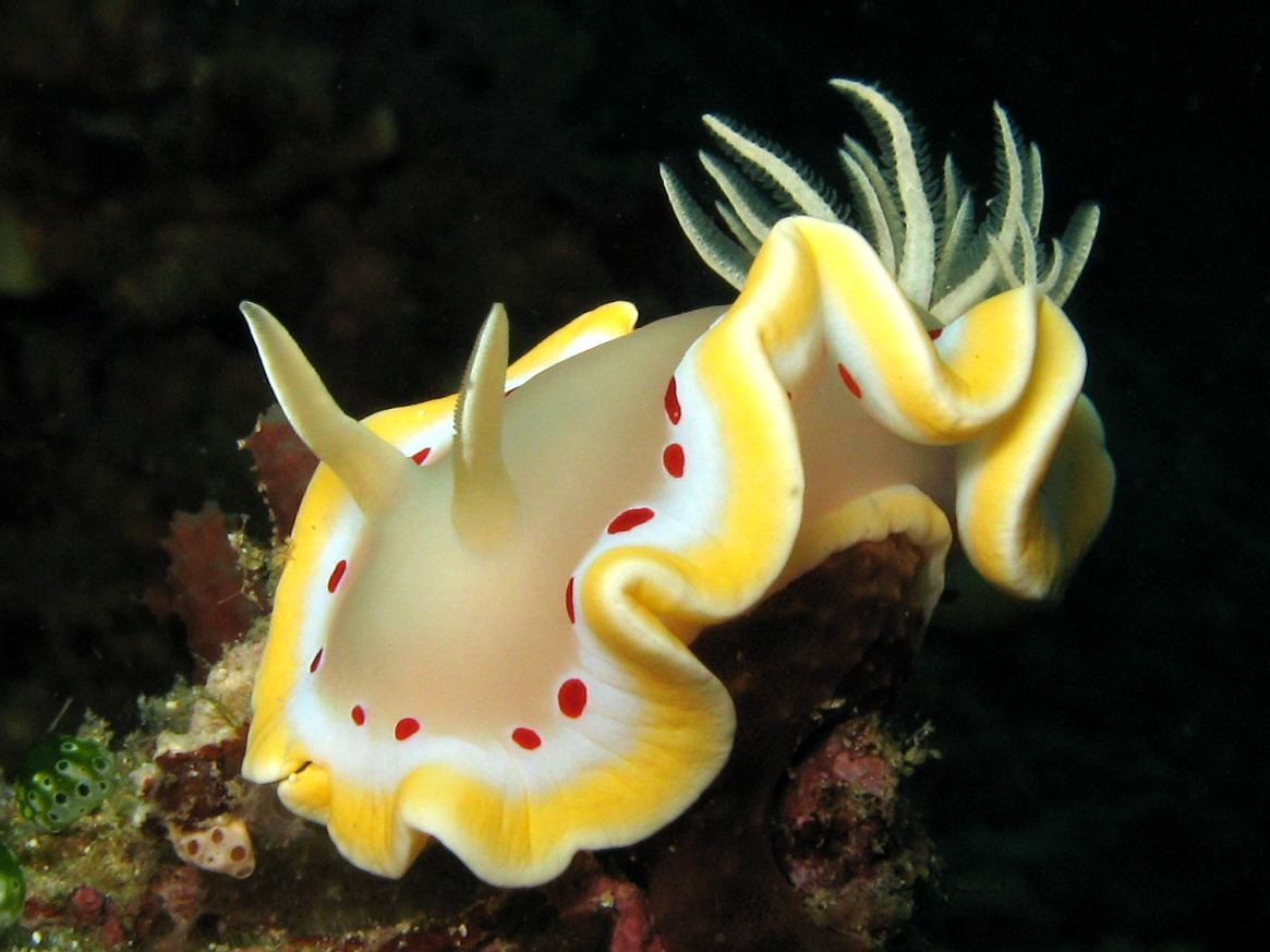 Nudibranch Ardeadoris cruenta (Rudman, 1986) (synonym: Glossodoris cruenta)